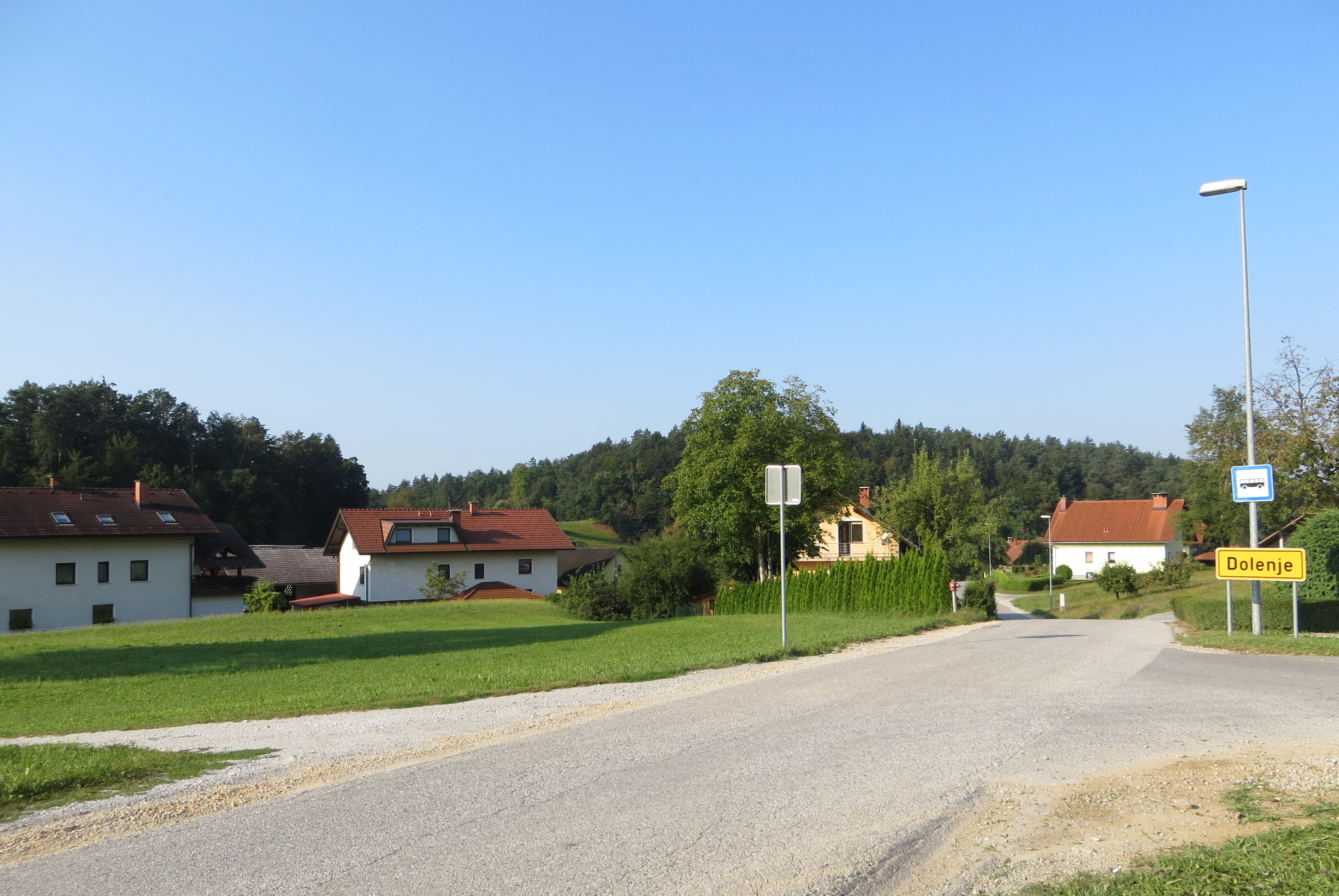 Dolenje, Municipality of Domžale, Slovenia